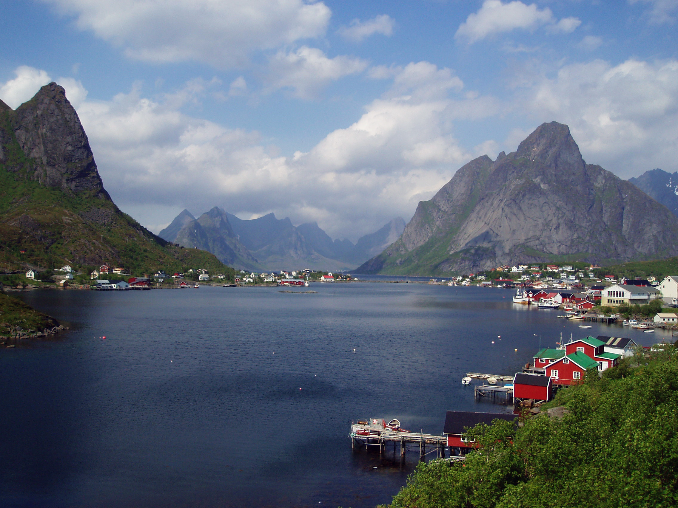 Lofoten Keywords: Sea and water, Landscape, Norway Data-uid: 08295c59f0fecdb9f7423a82bdc91007